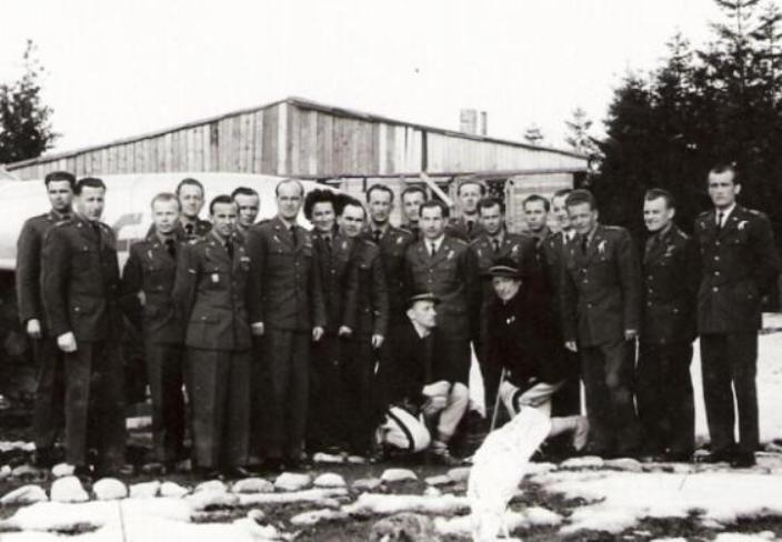 Piloci 64.LPSz na szkoleniu kondycyjnym w Groniku 1961